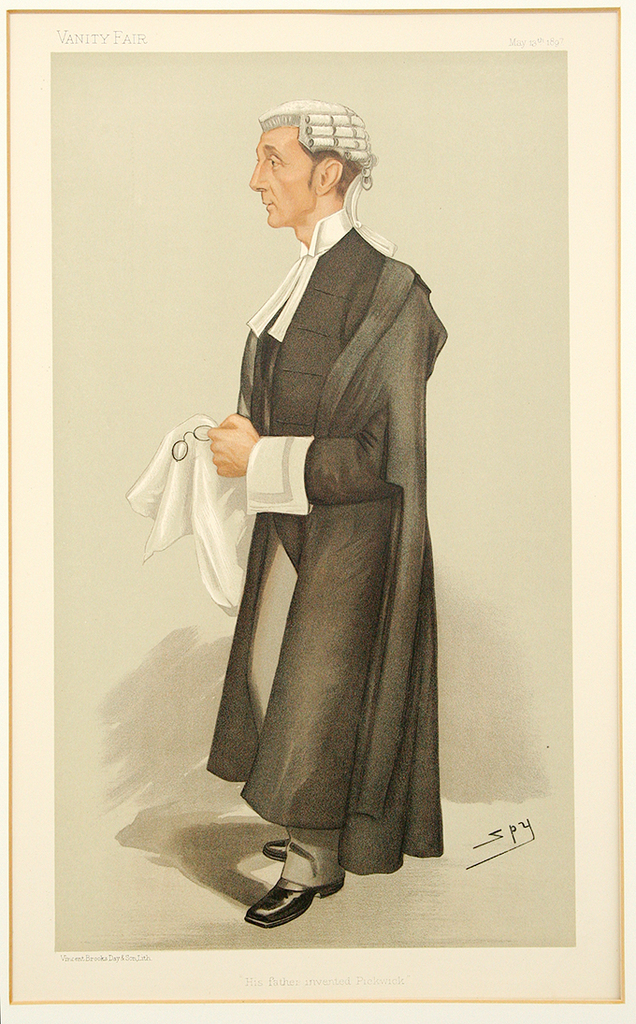 Caricature of Henry Fielding Dickens. Caption read "His father invented Pickwick".